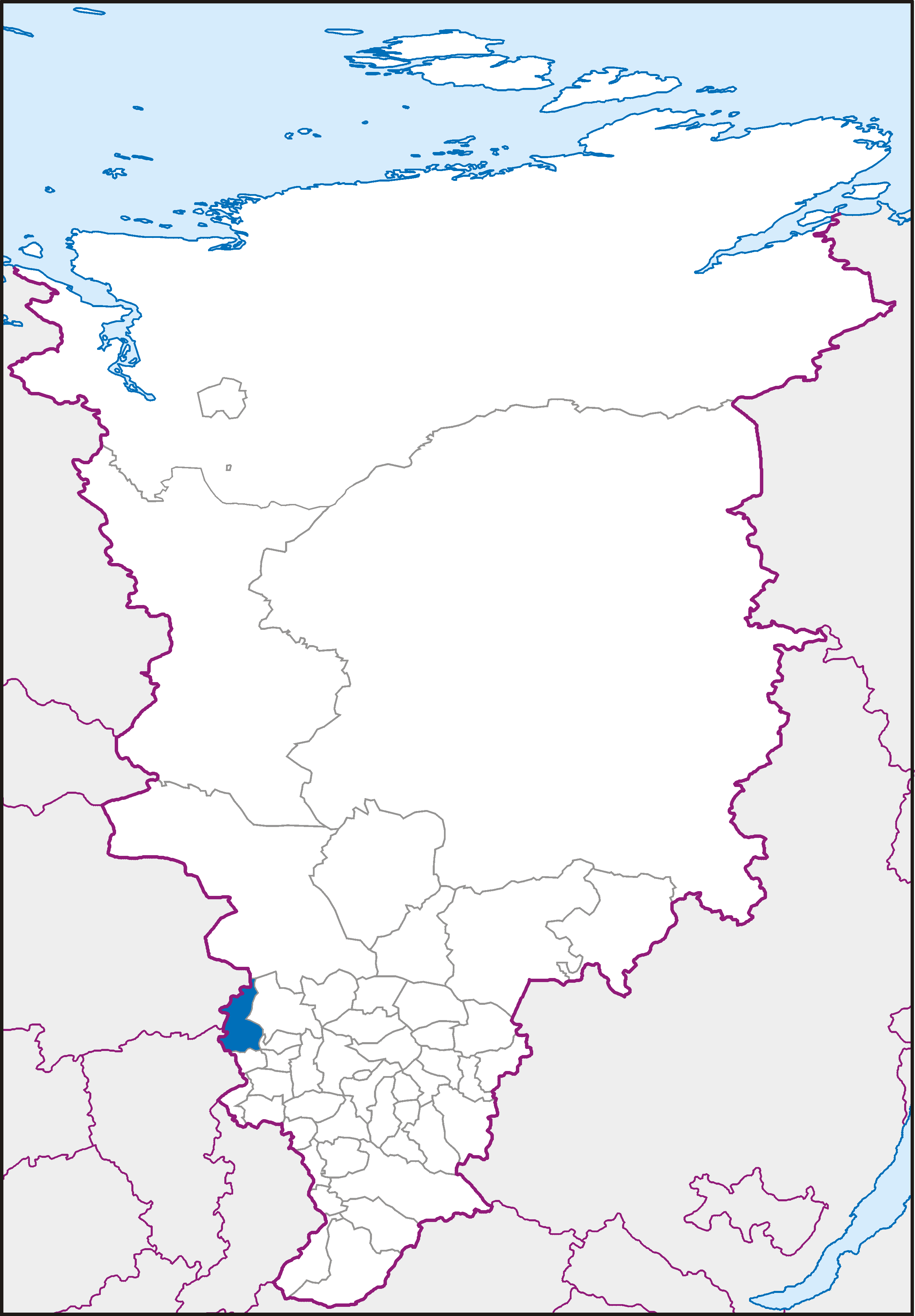 Map of Krasnoyarsk Krai in Albers Equal-Area Conic projection (Central Meridian = 95° E)